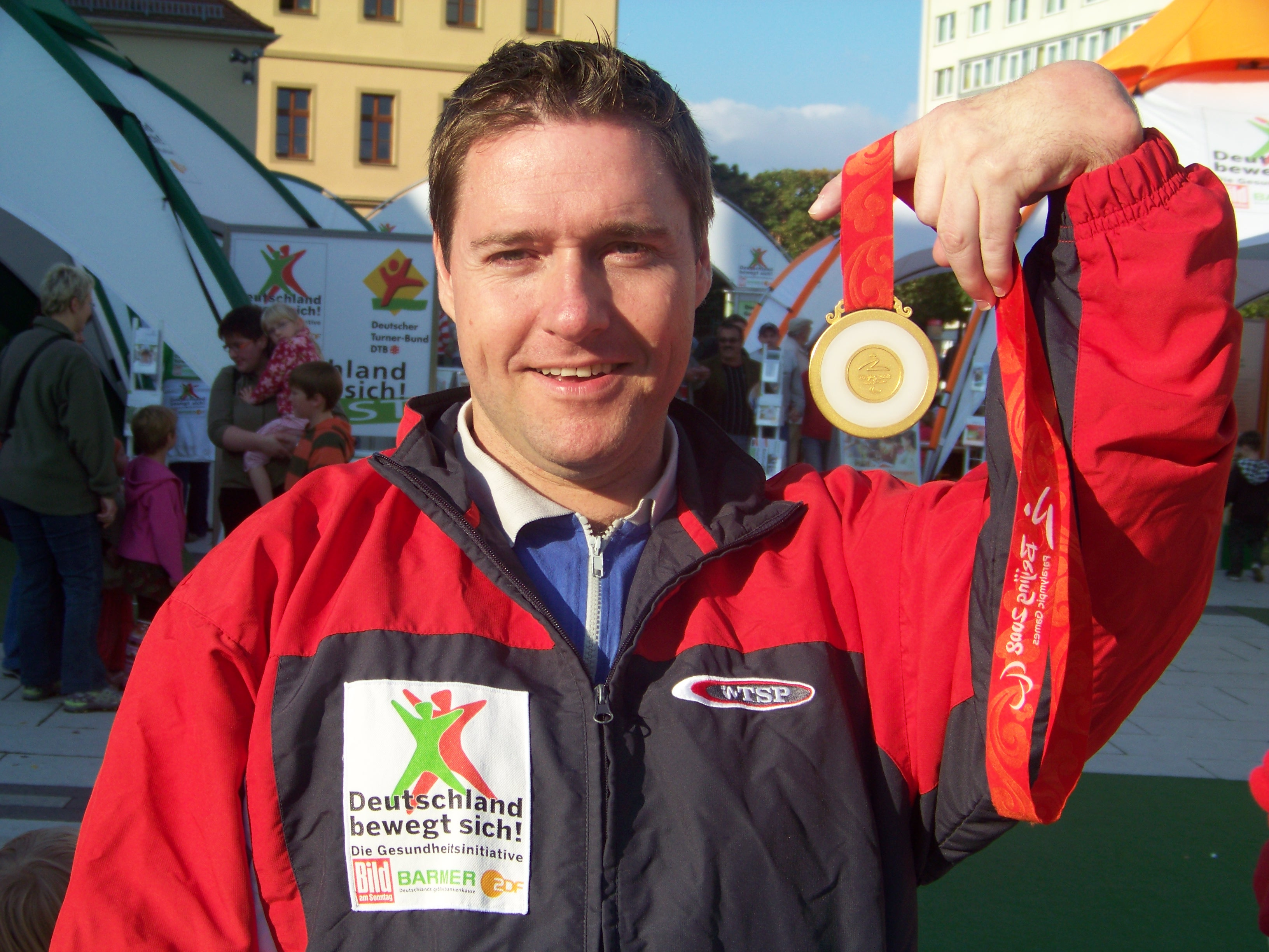 Table Tennis Player Jochen Wollmert with Gold Medal from the 2008 Summer Paralympics in Beijing